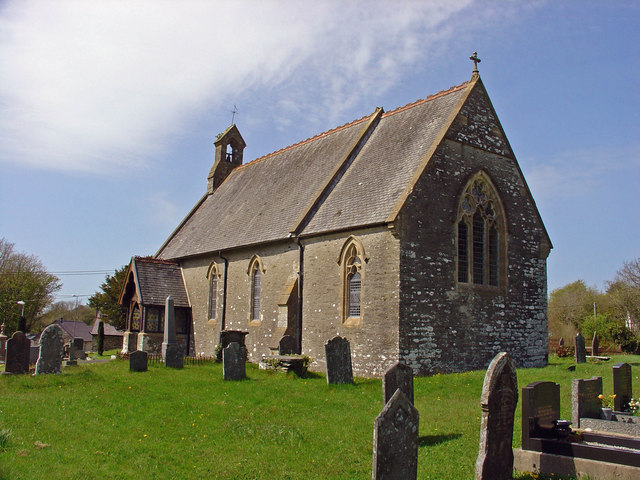 St Cristiolus' parish Church, Eglwyswrw, Pembrokeshire, seen from the southeast